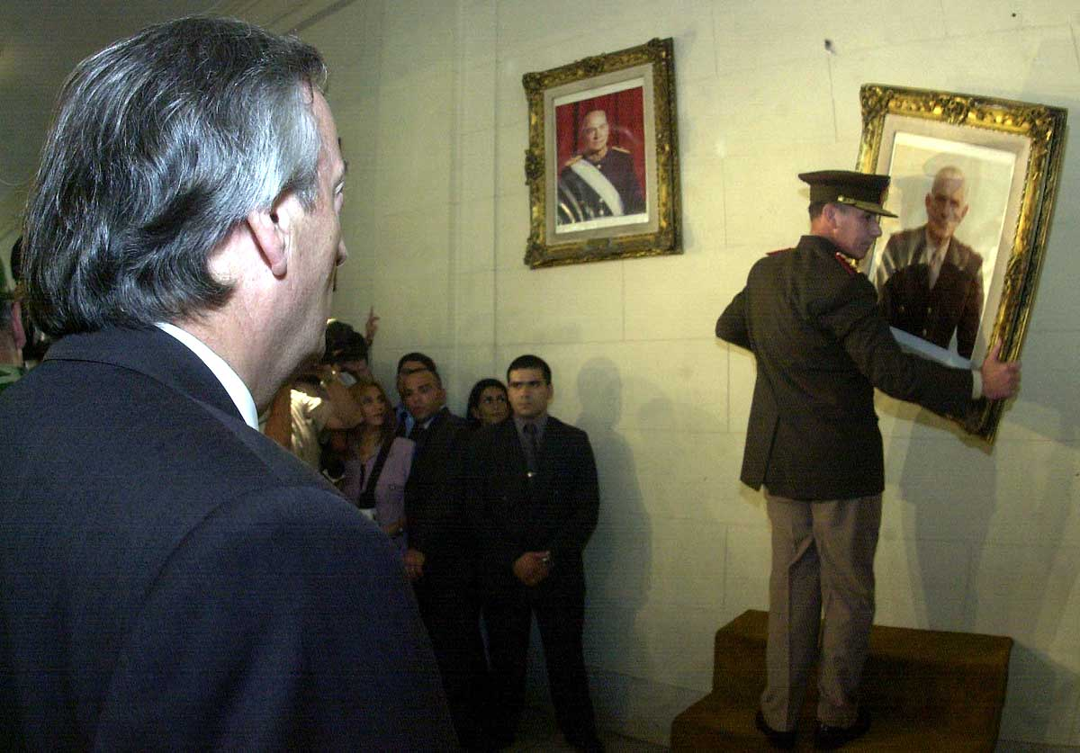 President Néstor Kirchner, watching while General Bendini takes down portraits of repressors. Picture taken at Colegio Militar de la Nacion, Buenos Aires.